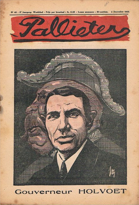 Georges Holvoet. Front page of the Flemish magazine Pallieter (1922-1928). All front pages were designed and illustrated by Jos De Swerts (1890-1939).